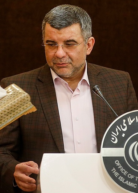 Iraj Harirchi